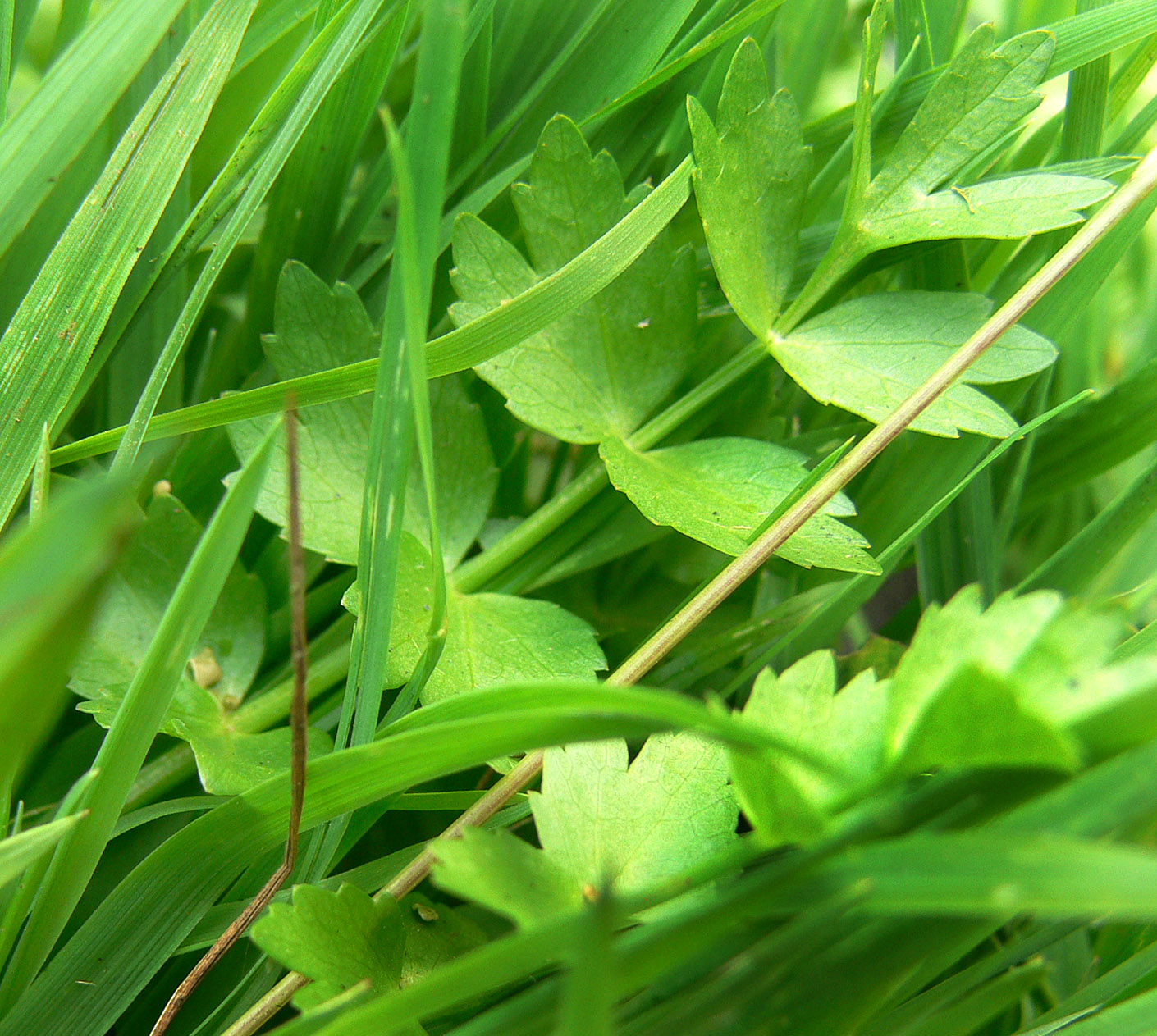 Apium repens, Nord/Pas-de-Calais, France